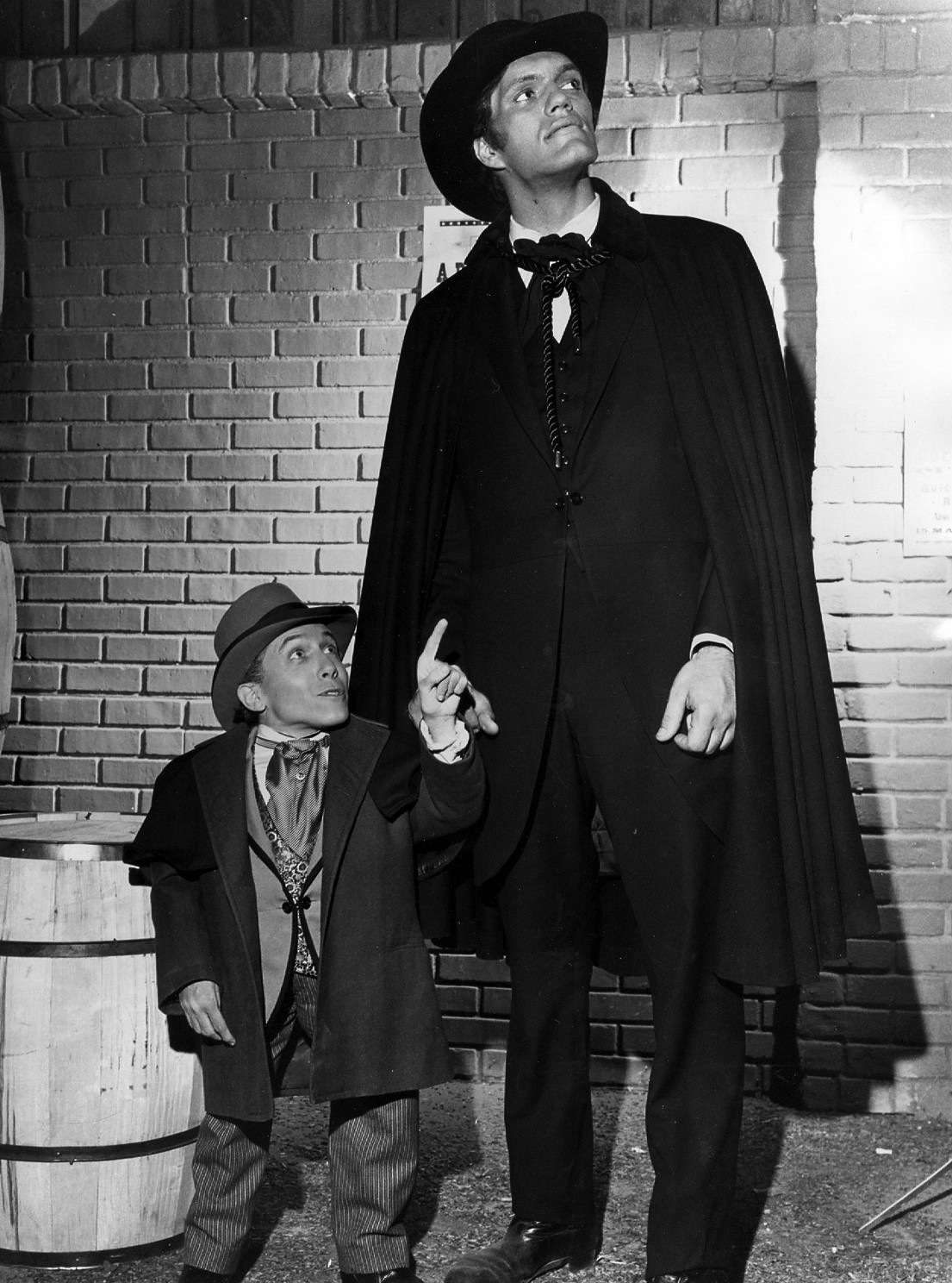 Photo of Michael Dunn as Dr. Loveless and Richard Kiel as Voltaire from the television program The Wild Wild West.